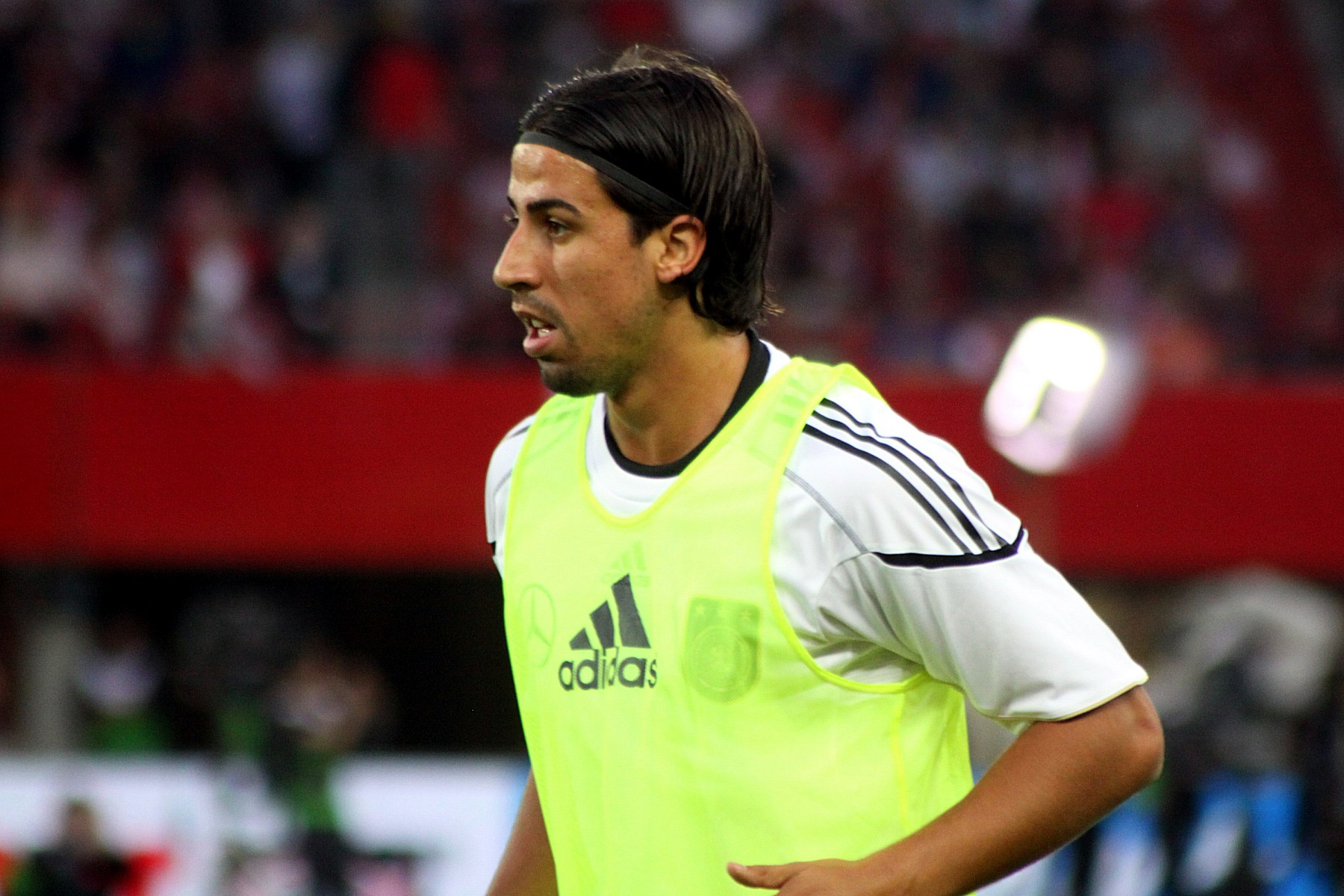 Sami Khedira (Real Madrid), german national football team - OpenStreetMap (Info)